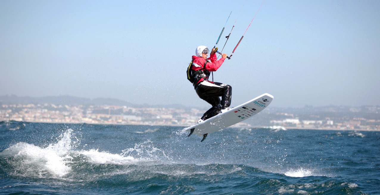 Francisco jumping at the beginning of the MINI Kitesurf Odyssey. JFF / João Ferrand